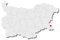 Map of Bulgaria, the red point is the position of Primorsko.